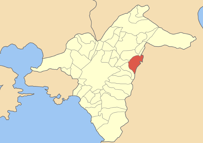 Locator map of Agia Paraskevi municipality (Δήμος Αγίας Παρασκευής) in Athina Nomarchia (Νομαρχία Αθηνών) in Greece.